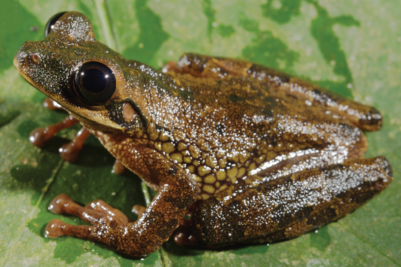 File:Osteocephalus festae - ZooKeys-229-001-g015.xcf converted, cropped, - "H"